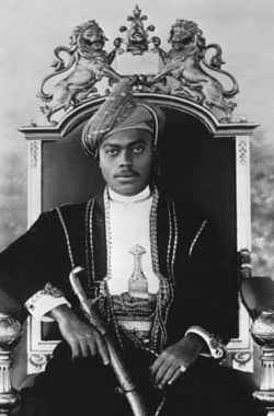 sultan Ali bin Hamoud of zanzibar, he ruled between 1902 - 1911